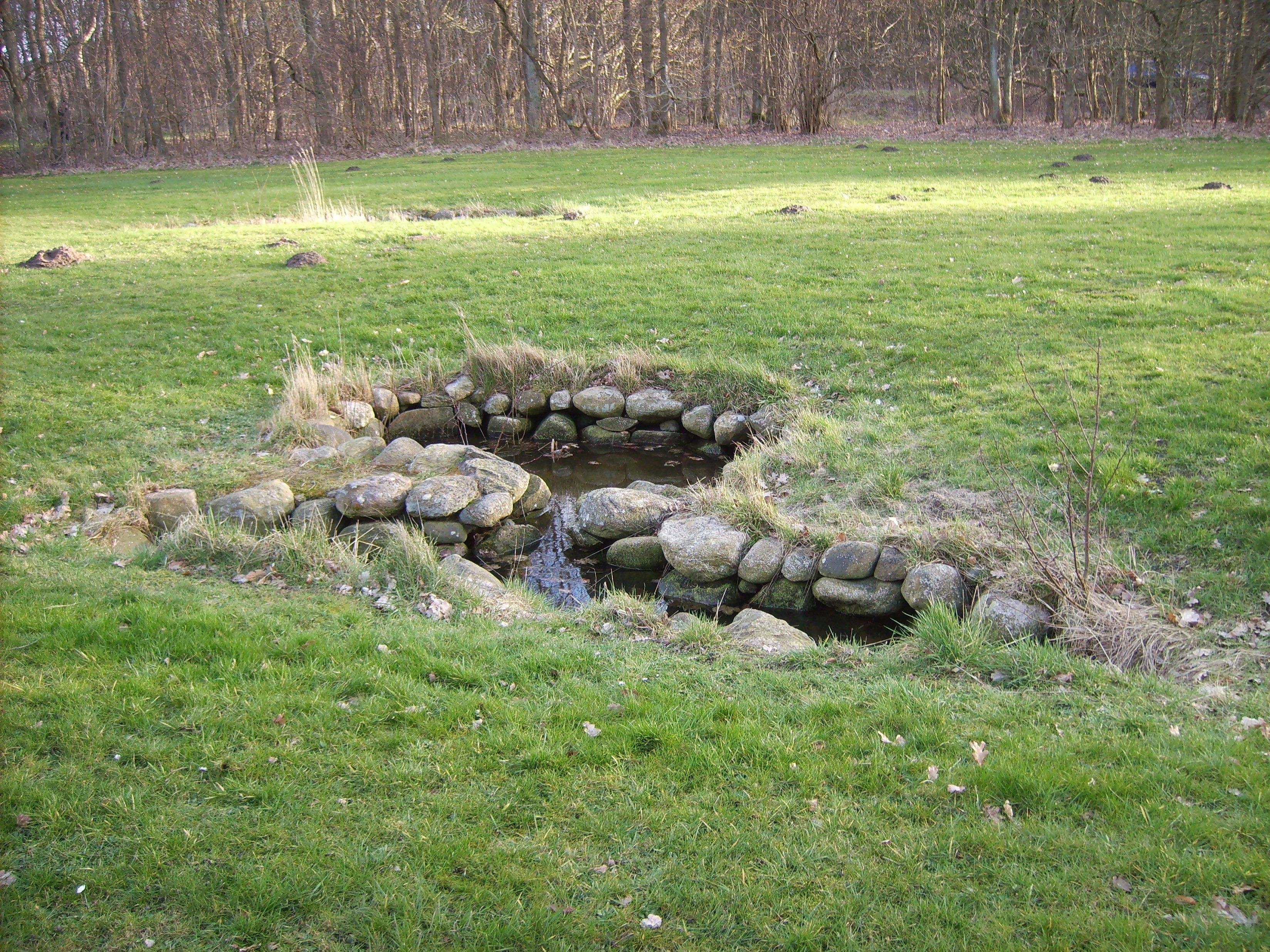 On Løgten Mark in the parish Flade in Frederikshavn municipality, eight stone-built cellars were found during an excavation taking place from 1956 til 1959. However, only six of them can be seen. These cellars date back to the centuries up to the birth of Christ (pre-Roman Iron Age) and along similar cellars around Frederikshavn they established a special type which is not seen elsewhere. They were built as storerooms under or close to the house of the village of that time. SB 159 (Stednavne Løgten Mark), Flade sogn, Frederikshavn Kommune. Anlæg Jernalderkældre.